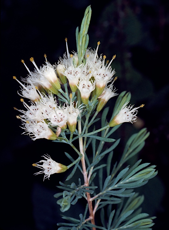 Homoranthus tropicus in the Australian National Botanic Gardens